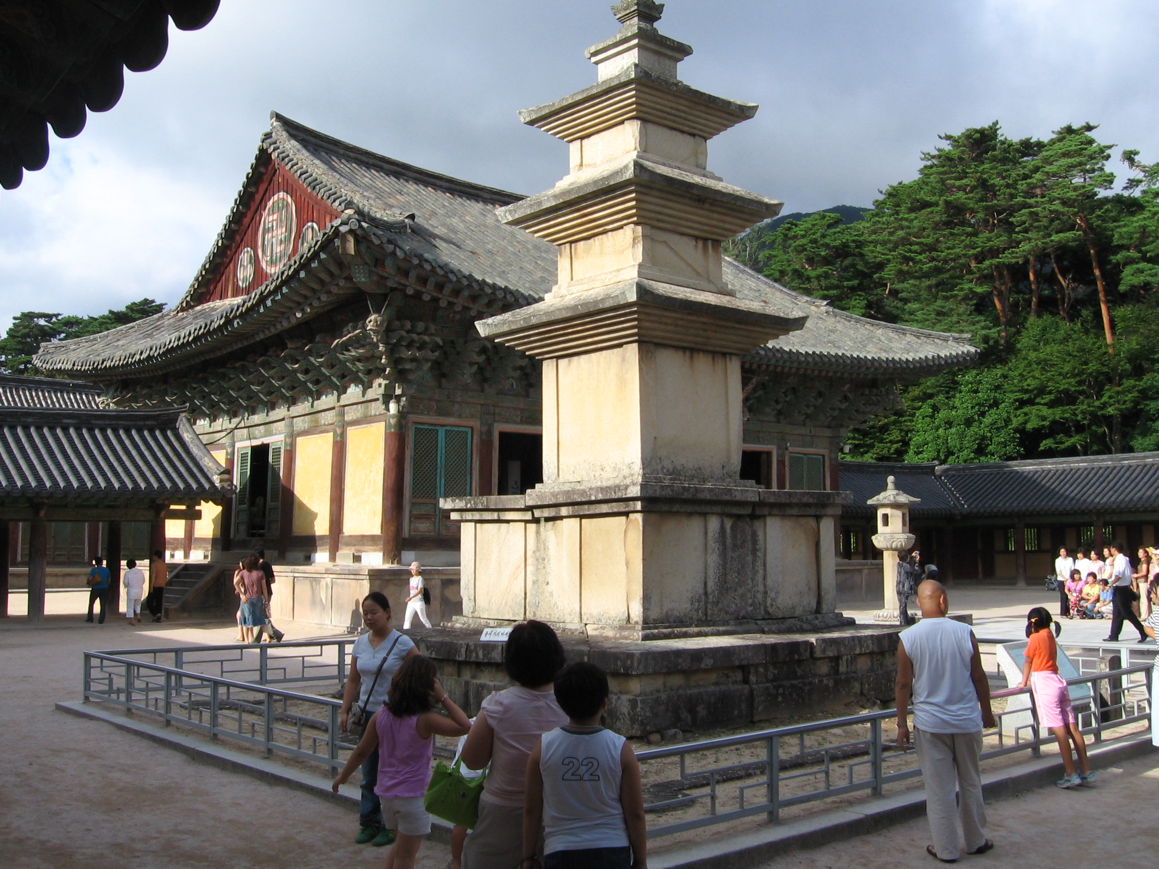 A Pagoda and a building in the Bulguksa Temple in South Korea. Taken by myself (Johannes Barre, iGEL (talk)) on 2005 August 23.